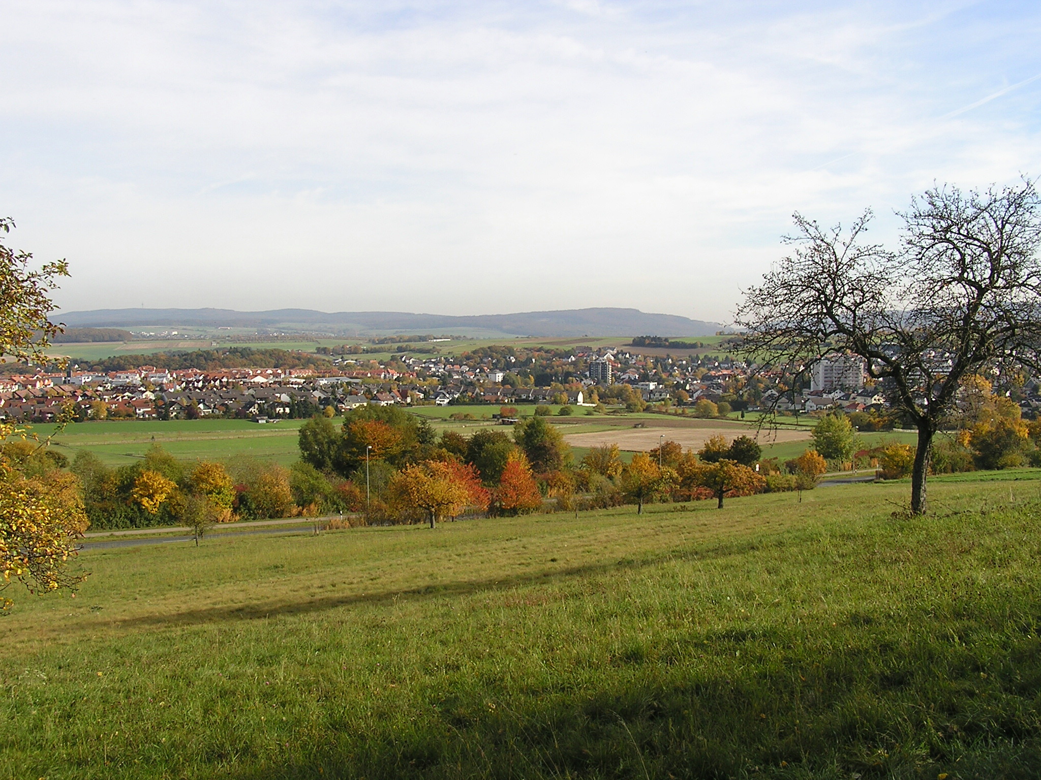 Neu-Anspach (Taunus), Germany